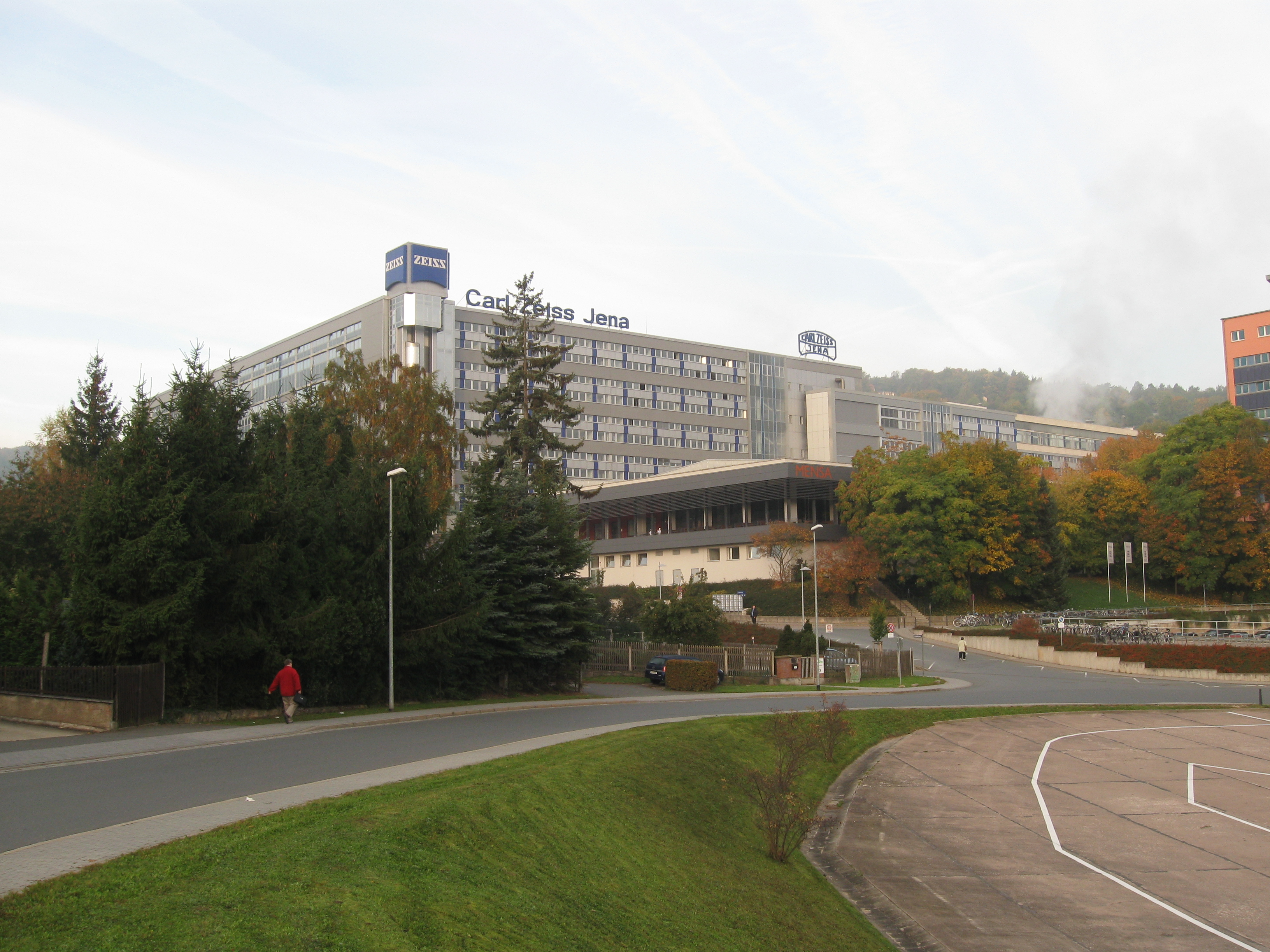 Jena, Carl Zeiss Jena GmbH and other companies, former building 6/70